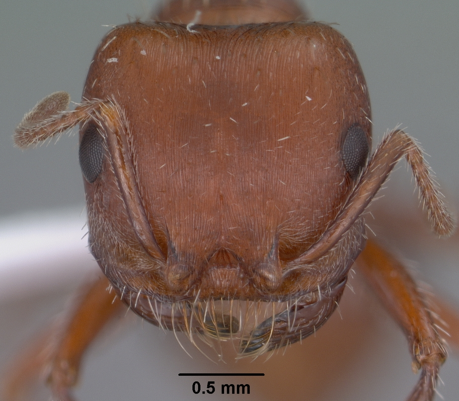 Head view of ant Pogonomyrmex desertorum specimen casent0000258.